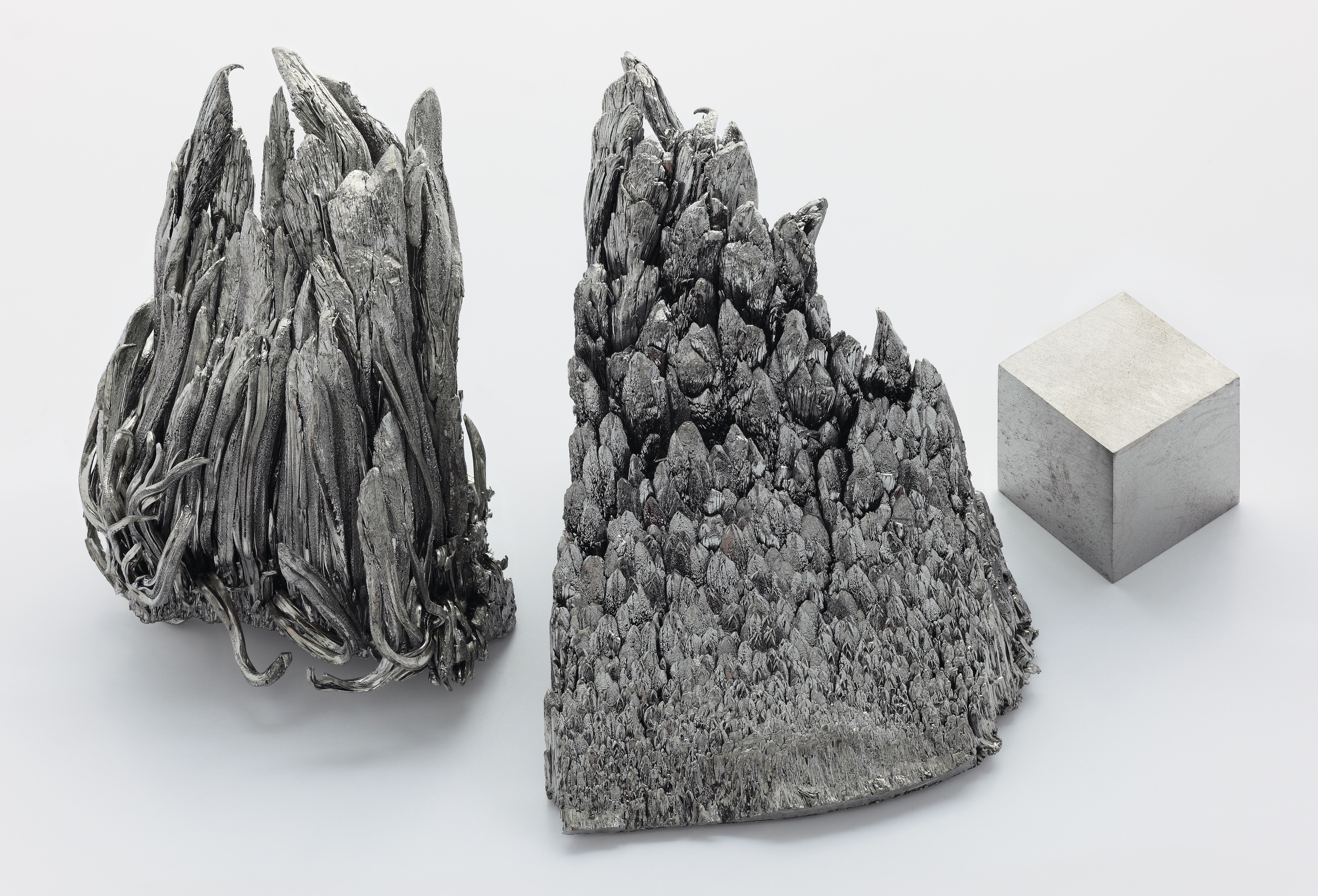 Yttrium, sublimed-dendritic, high purity 99.99 % Y/TREM. As well as an argon arc remelted 1 cm3 yttrium cube for comparison. Purity 99.9 %.